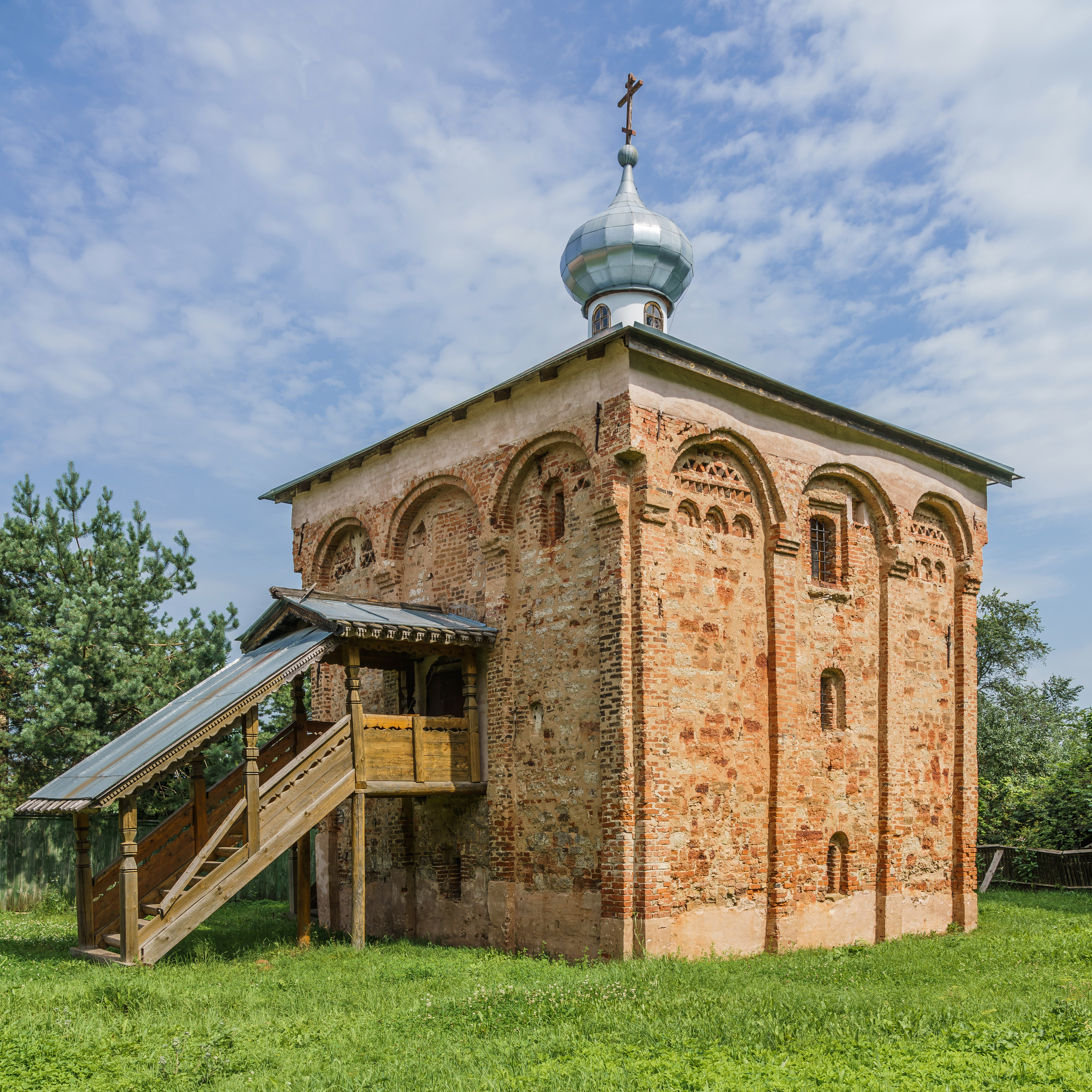 St. Menas Church in Staraya Russa, Novgorod Oblast, Russia